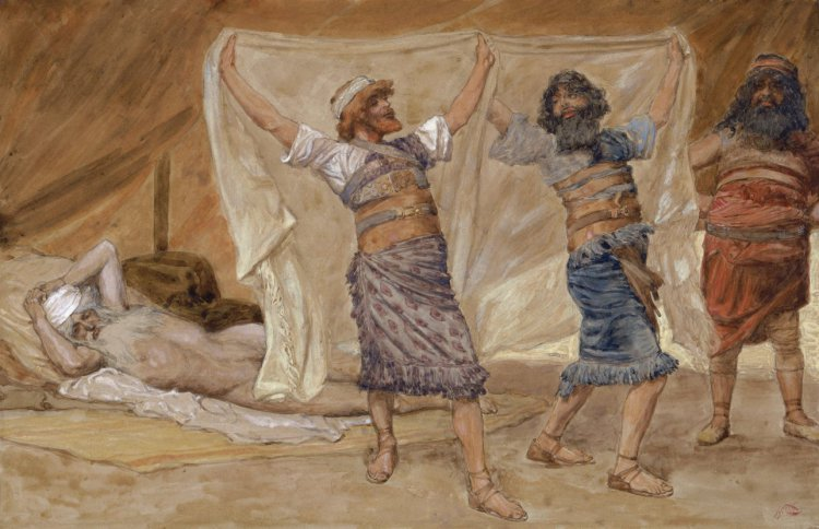 Noah's Drunkenness, c. 1896-1902, by James Jacques Joseph Tissot (French, 1836-1902), gouache on board, 7 7/8 x 12 1/2 in. (20.2 x 31.9 cm), at the Jewish Museum, New York